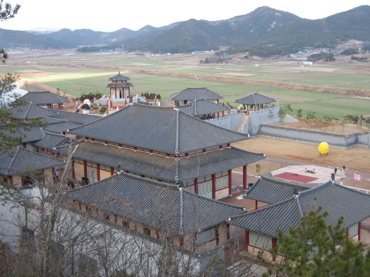 One of the sites specially built for filming 'Jumong', one of the most popular Korean TV dramas.